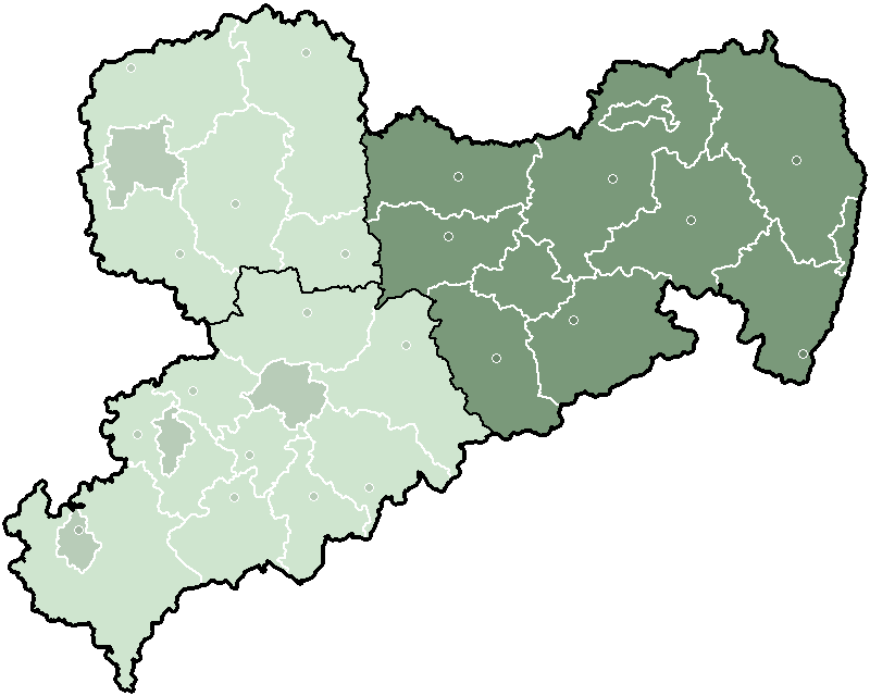 Map of the state Saxony in Germany before 2008, government region Dresden highlighted.